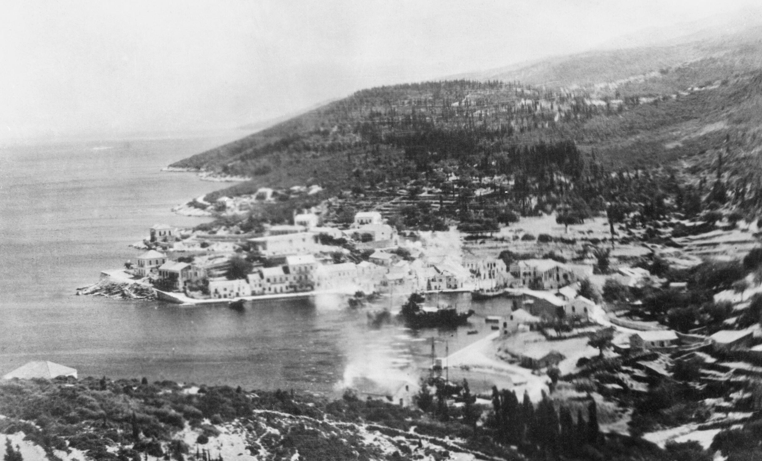 Royal Air Force Operations in Malta, Gibraltar and the Mediterranean, 1940-1945. Low-level oblique aerial taken from a Bristol Beaufighter as it attacked a small cargo vessel and a naval patrol boat moored in the harbour at Fiskardho on the island of Cephalonia, Greece.